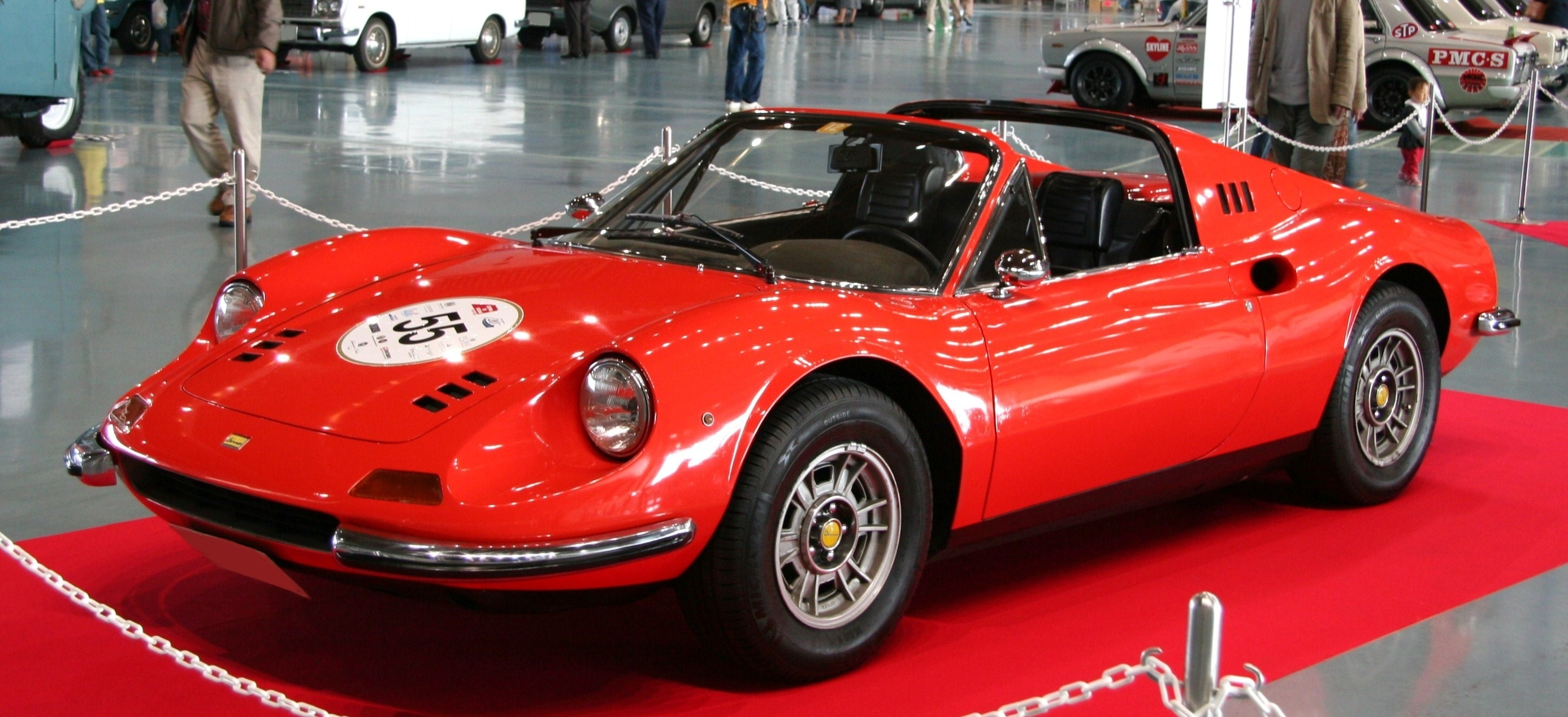 Ferrari 246